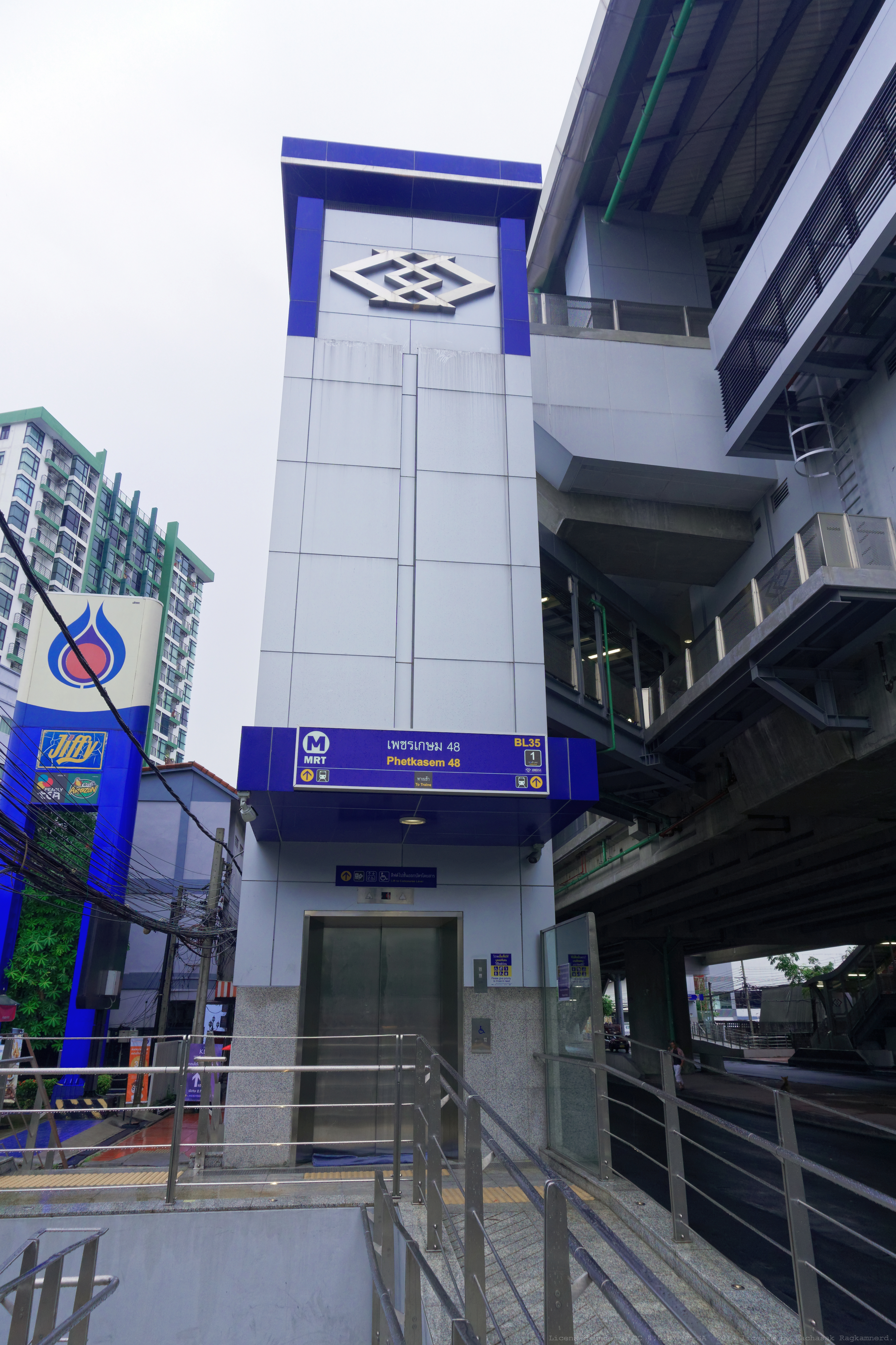 MRT Phetkasem 48 station: Exit 1 elevator near Phetkasem 48 alley (Soi).